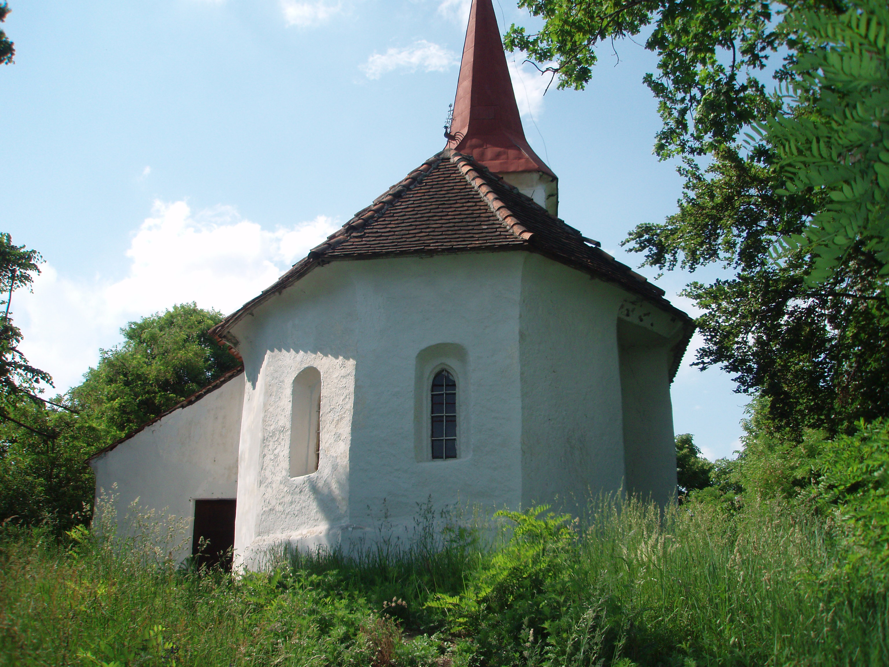 Holy Spirit Church (Dramlja)